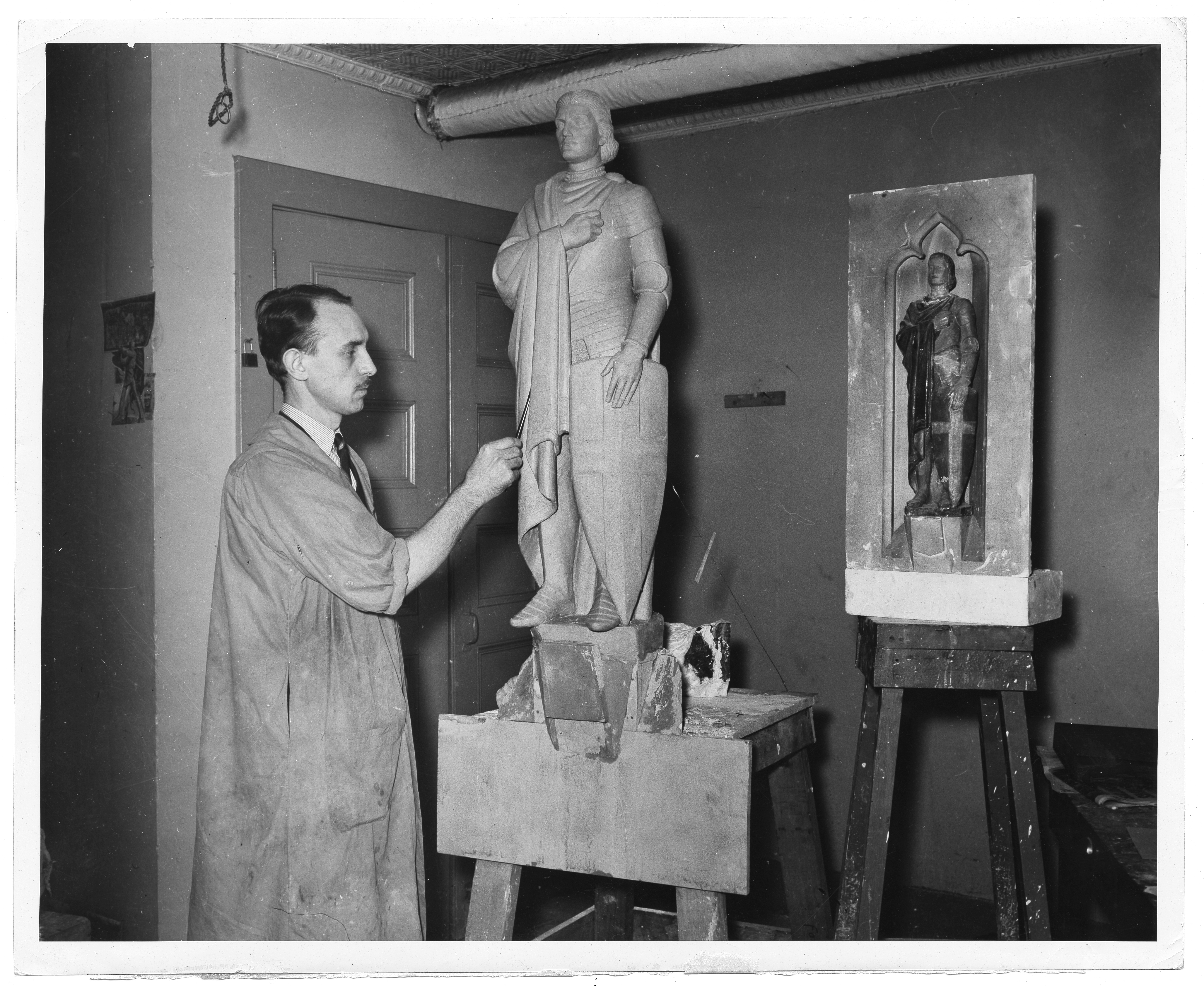 King working on the sculpture, Honor. Identification on verso (handwritten and stamped): Federal Art Project W.P.A.; Photographic Division; 235 East 42nd Street; New York City Sculpture; Location: 6 E. 39th St., N.Y. City; Date: 10/13/36; Negative No.: 1686-1; Photographer: McDonough Identification on accompanying label (typewritten): Heroic Art for West Point: - One of the four pieces of marble statuary being finished by the WPA Federal Art Project for the United States Military Academy at West Point. They will adorn the cadet mess hall, Washington Hall, which already houses a large mural painting and a 500-foot square stained glass window produced by the WPA Federal Art Project. Other military organizations in the New York are [sic] have received hundreds of allocations from the Art Project.